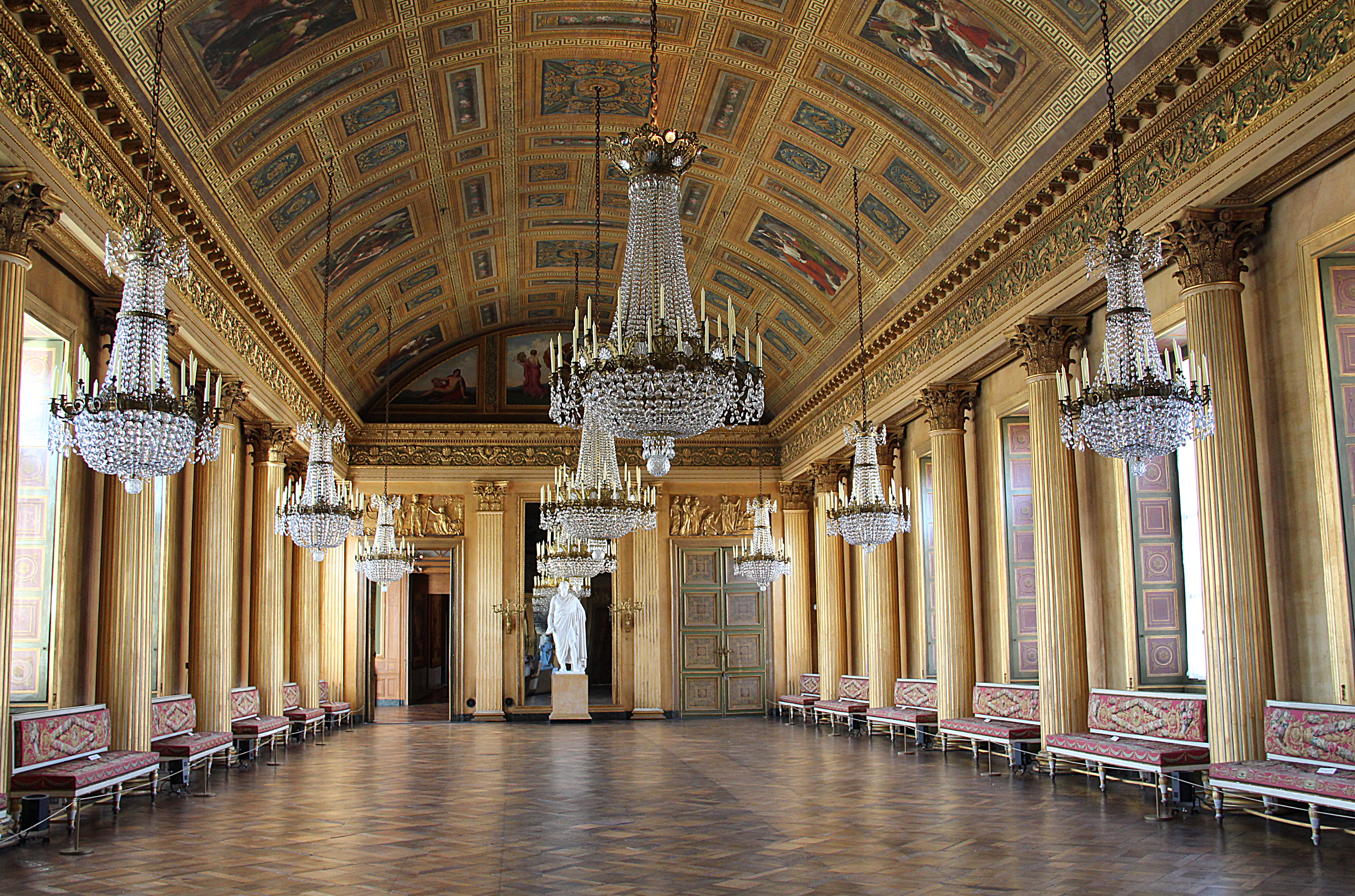 Ballroom of the Compiegne castle (Oise, France).